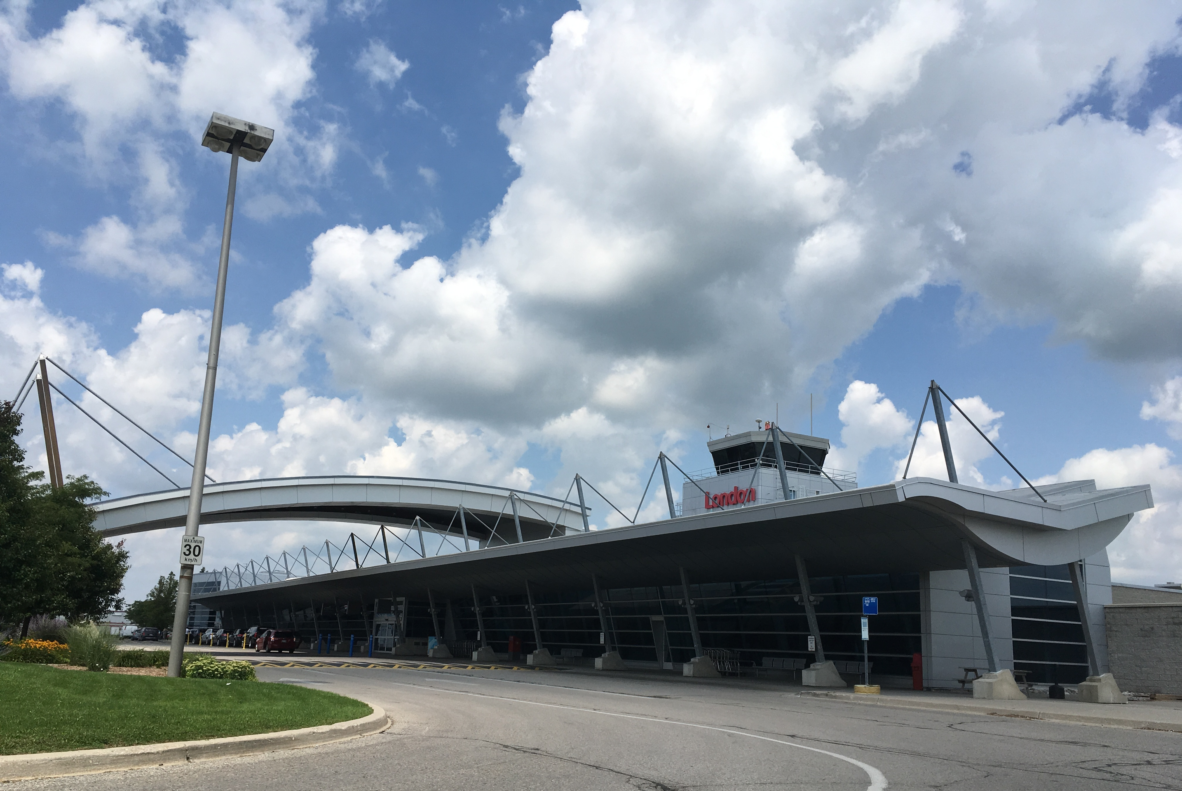 Terminal at London International Airport